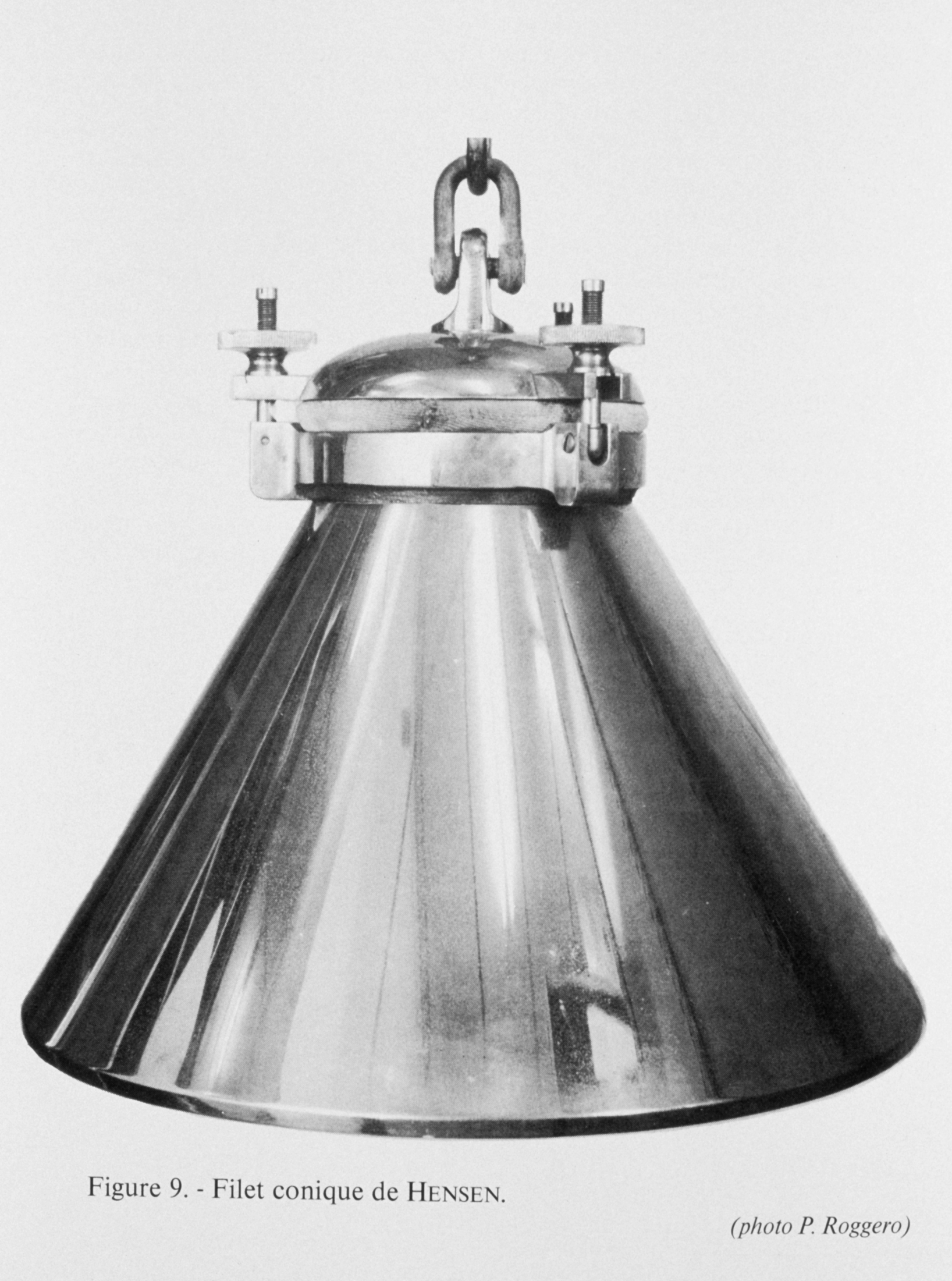 Cone for use with Hensen conical net. Invented by Victor Hensen of the University of Kiel in about 1883. He called this invention " Korbnetz." In 1901 he described an improved version that contained a tin-plate envelope. Between these dates, an intermediate form of this net and cone was used in the course of the Plankton Expedition of 1889.